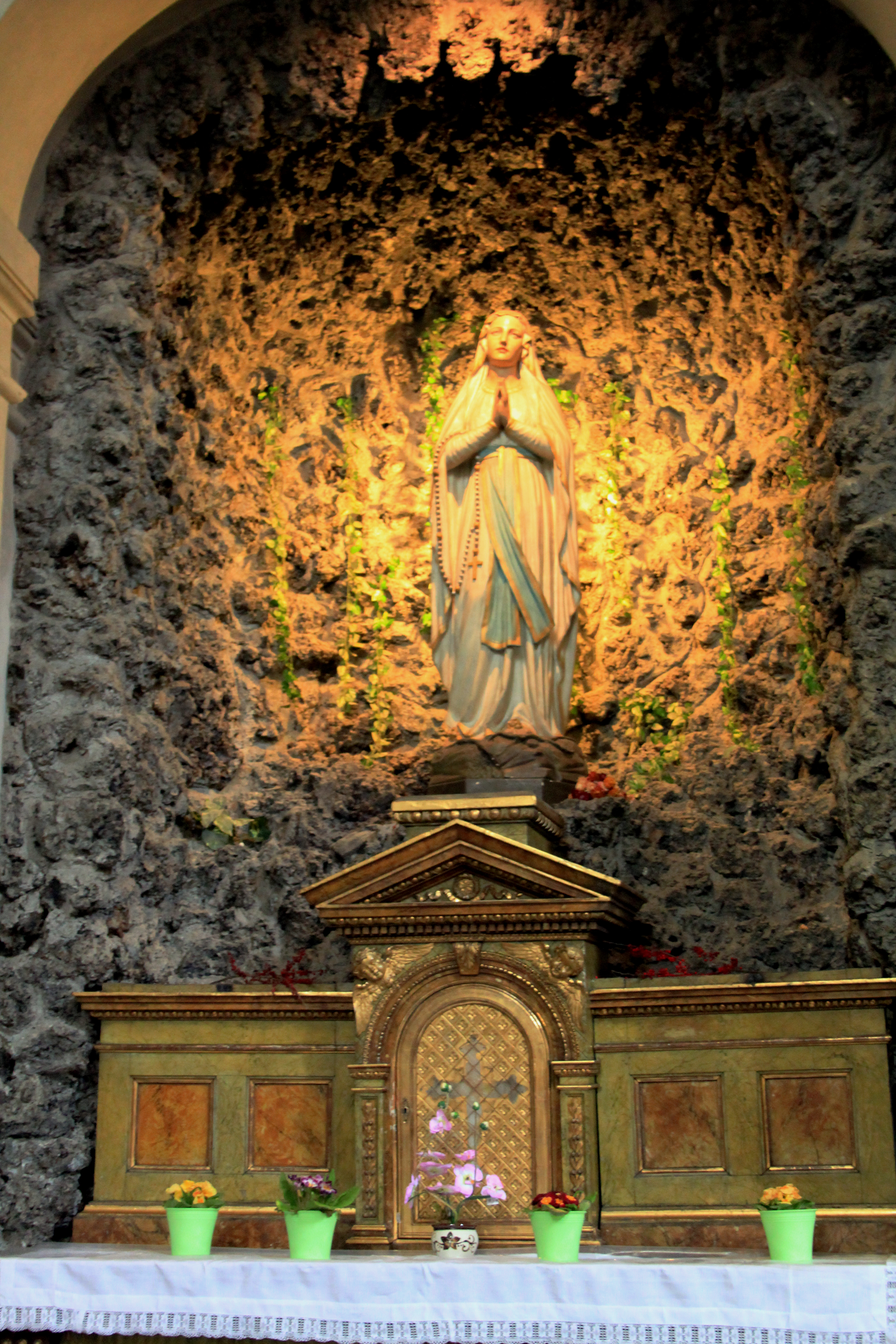 Interior of St Gilles's church in Prague, Czech Republic